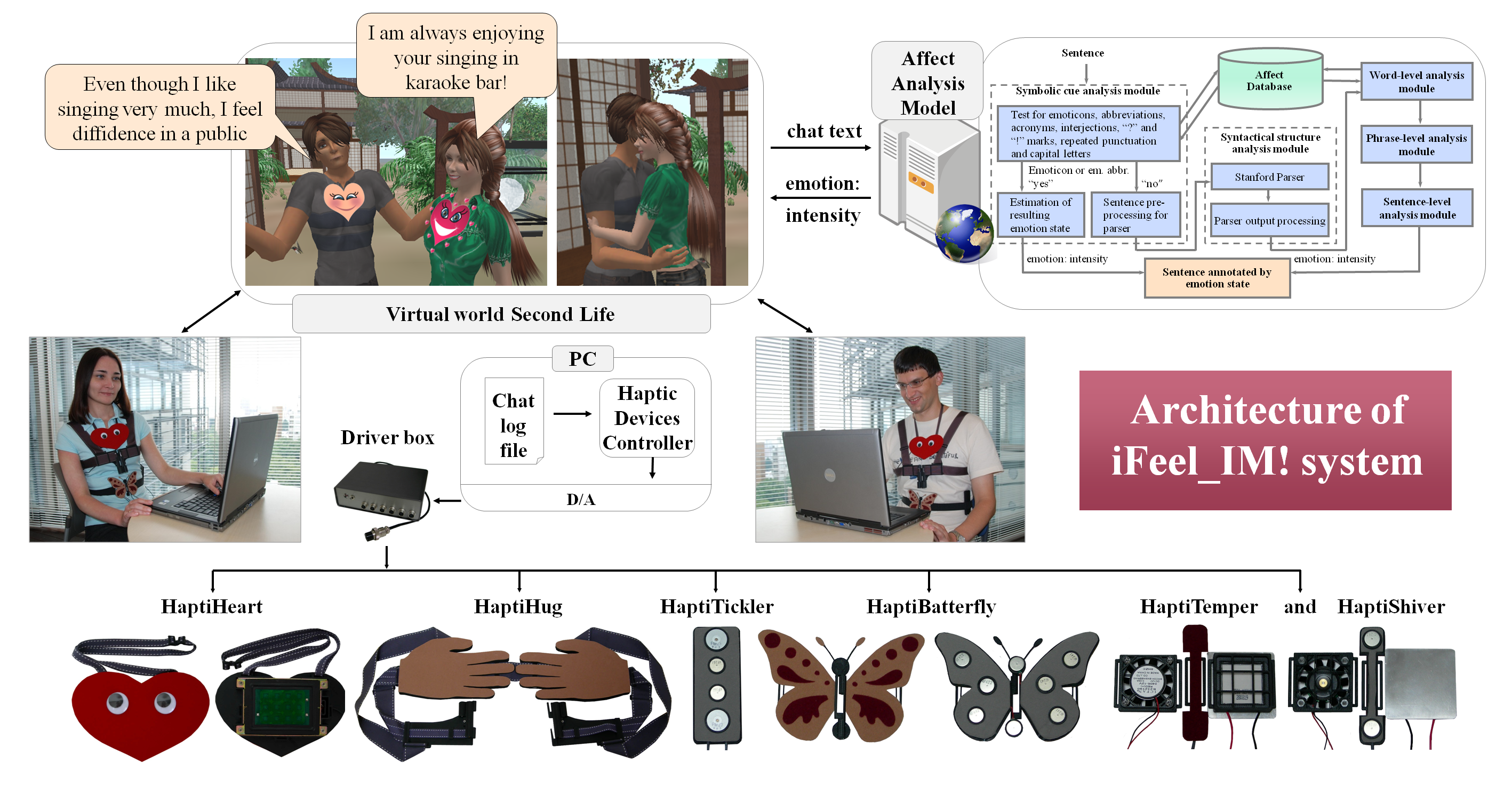 Architecture of iFeel_IM! system